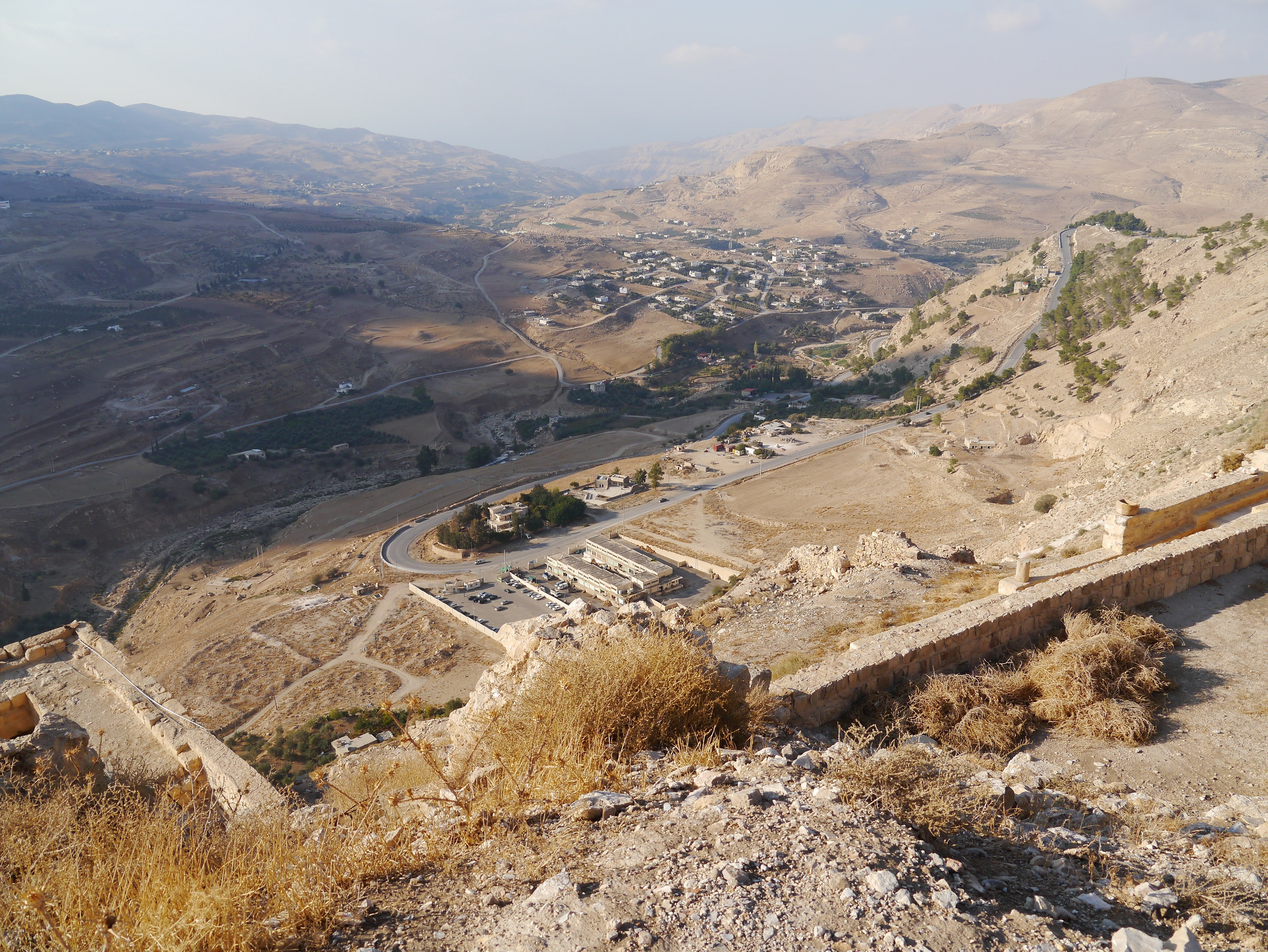 View from Karak Crusader Castle, al-Karak, Western Jordan